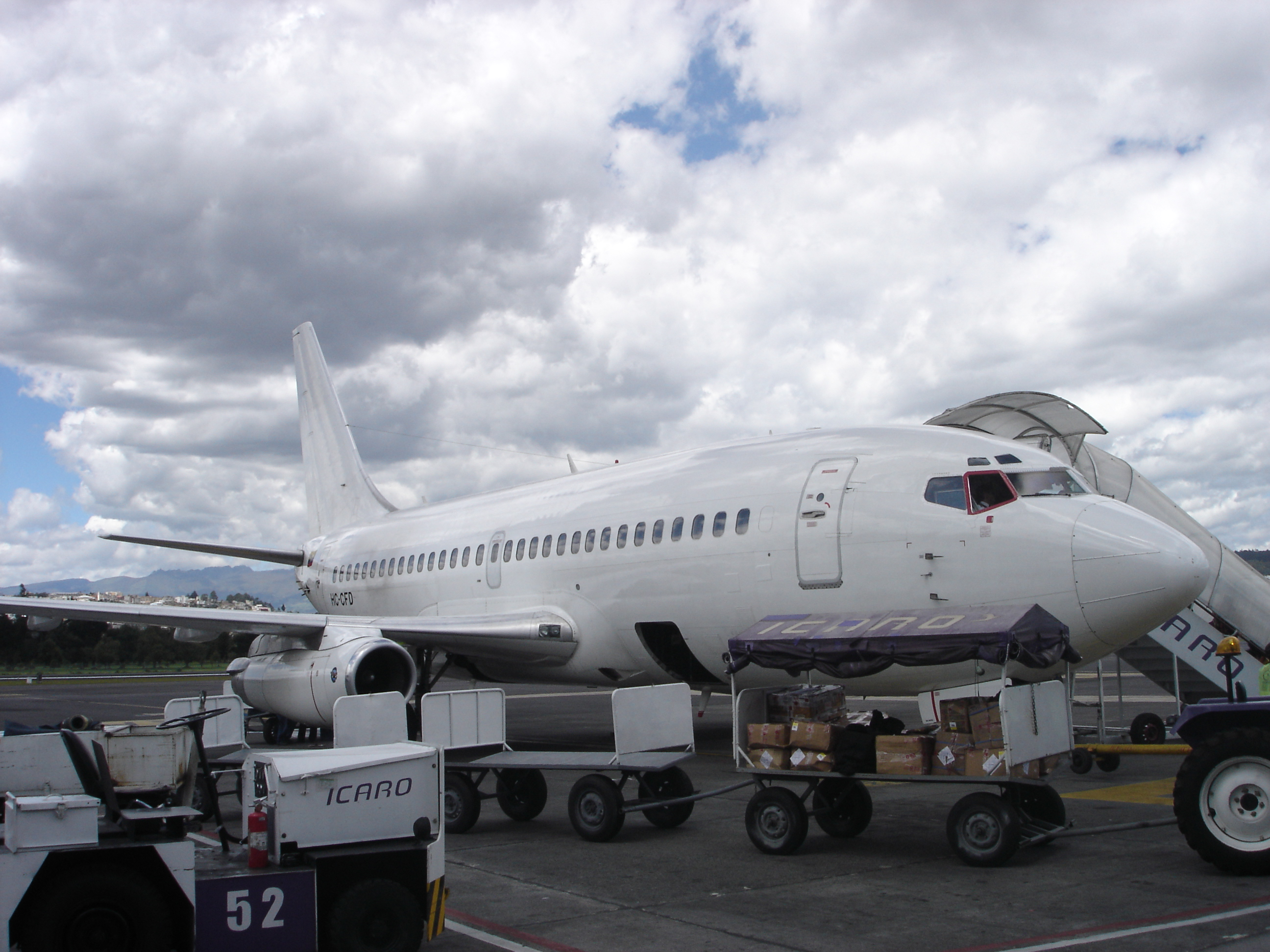 Boeing 737 of ecuadorian airline Icaro Air, boarding at Quito Mariscal Sucre international airport